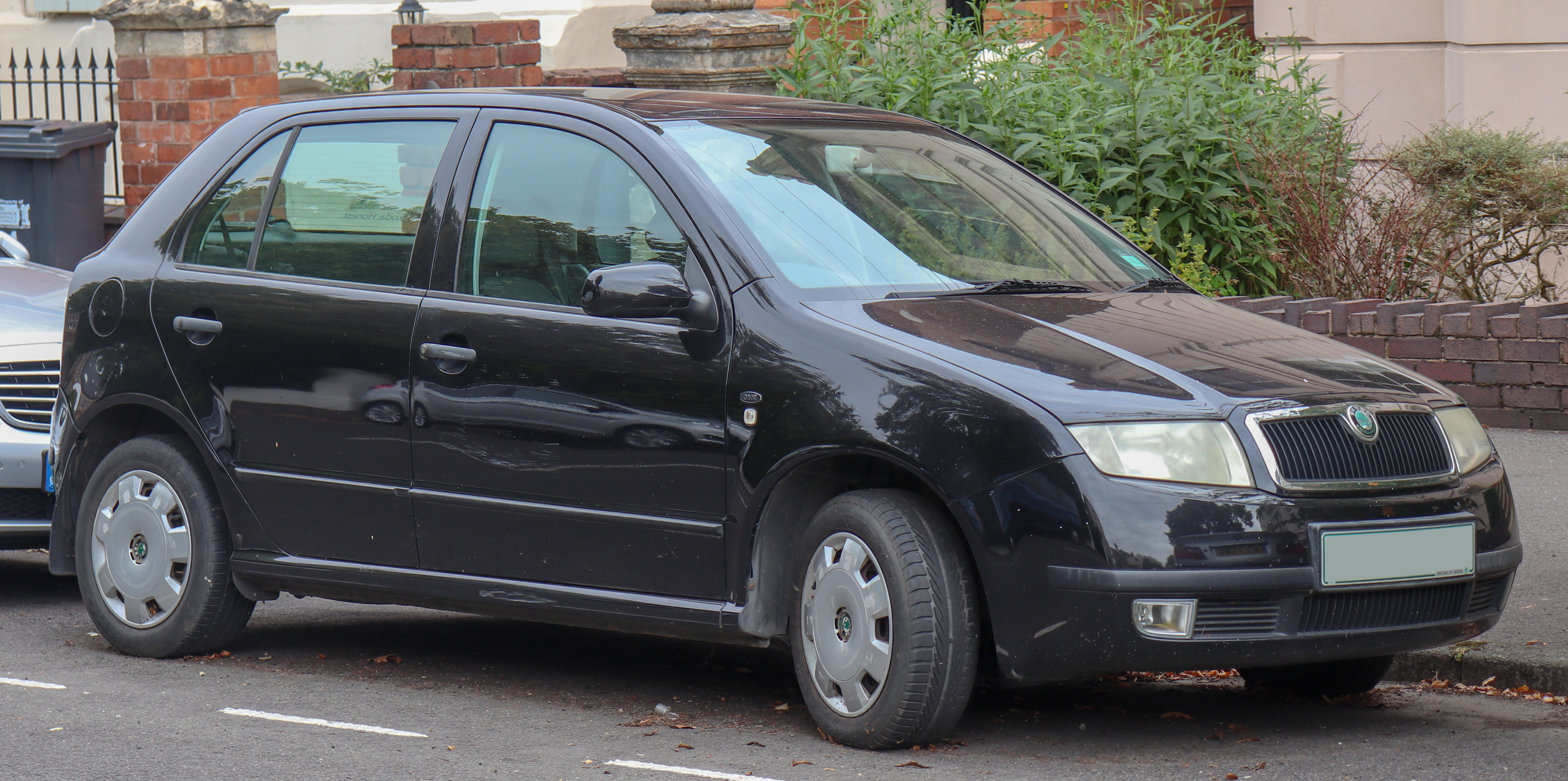 2001 Skoda Fabia Comfort 8V 1.4 Taken in Leamington Spa